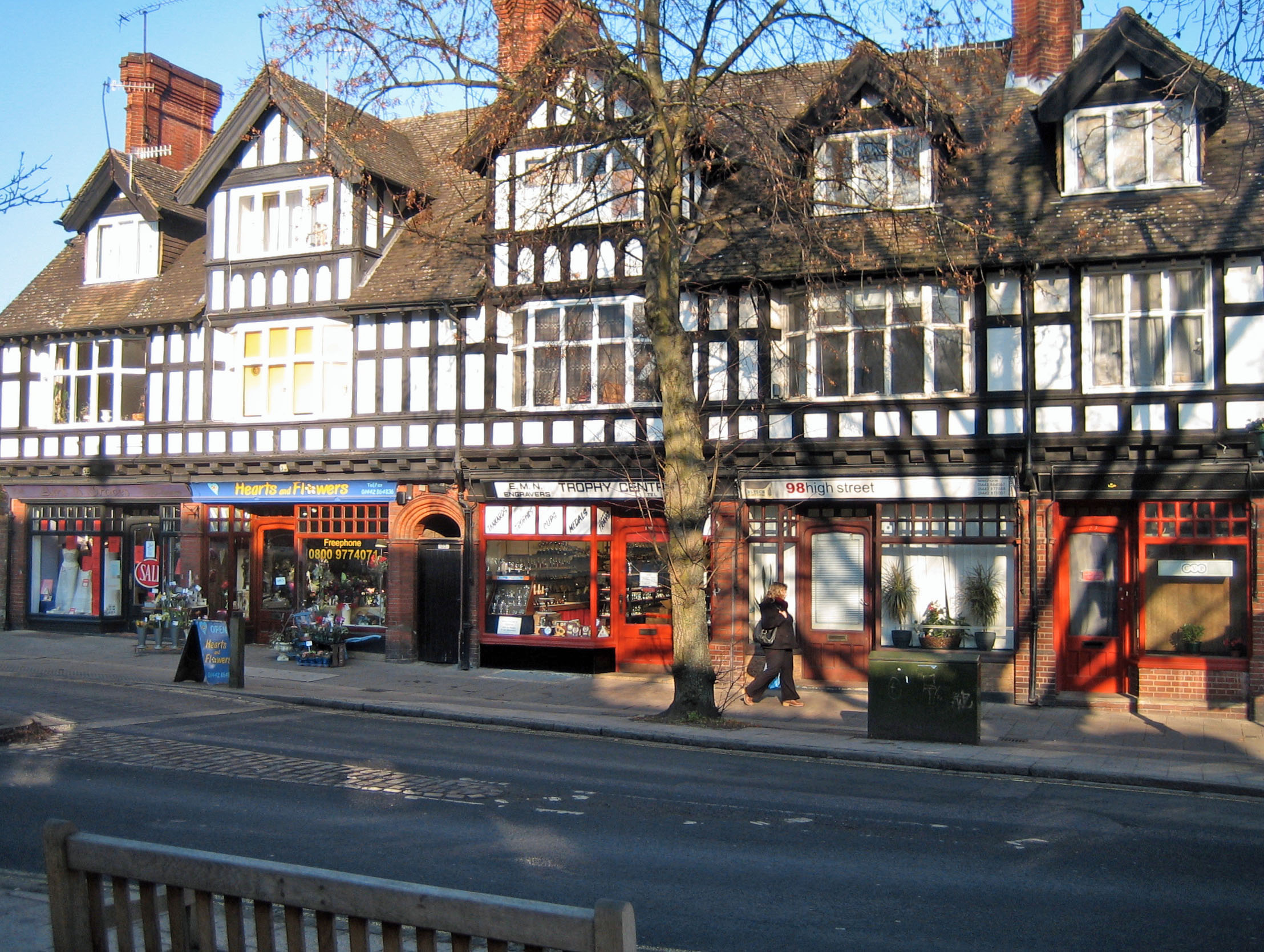 Shops in Berkhamsted, Hertfordshire.